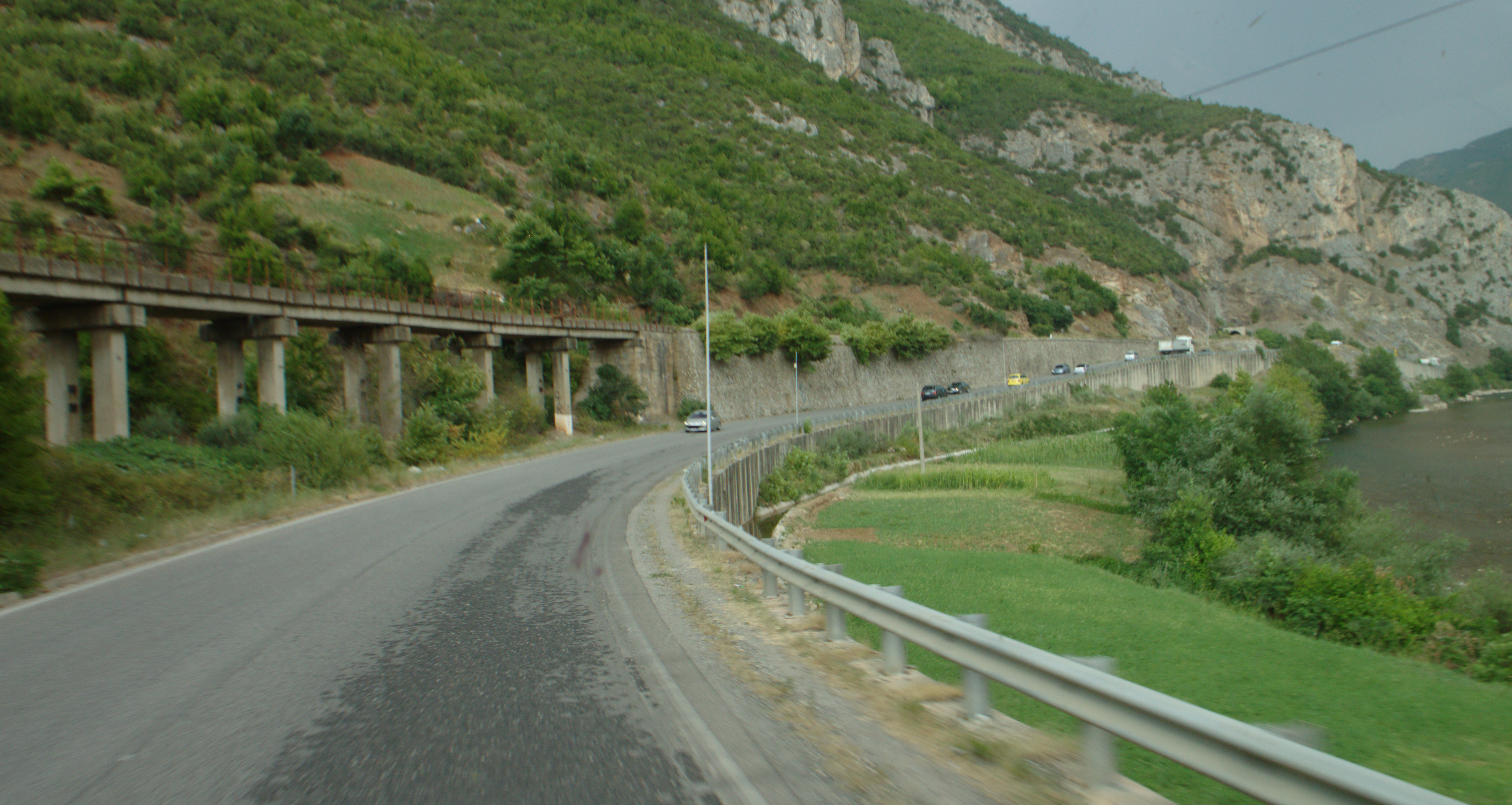 SH-3 national road in Albania from Tirana and Elbasan to Pogradec